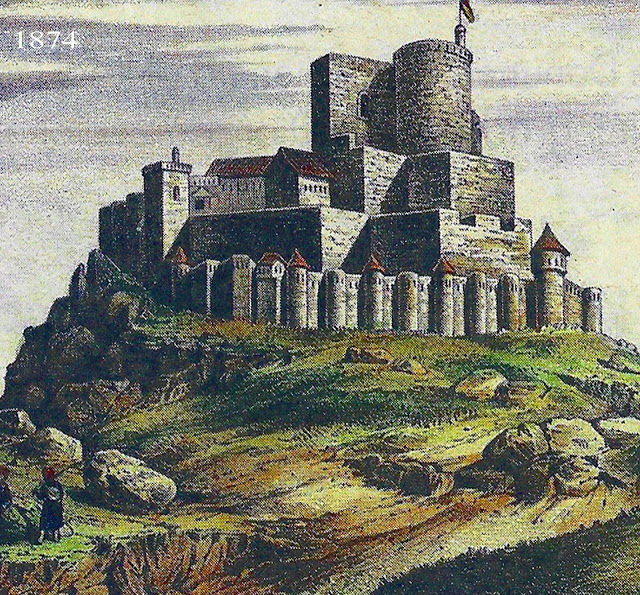 Aliaga's Castle, of Muslim origin. First time documented on 1163